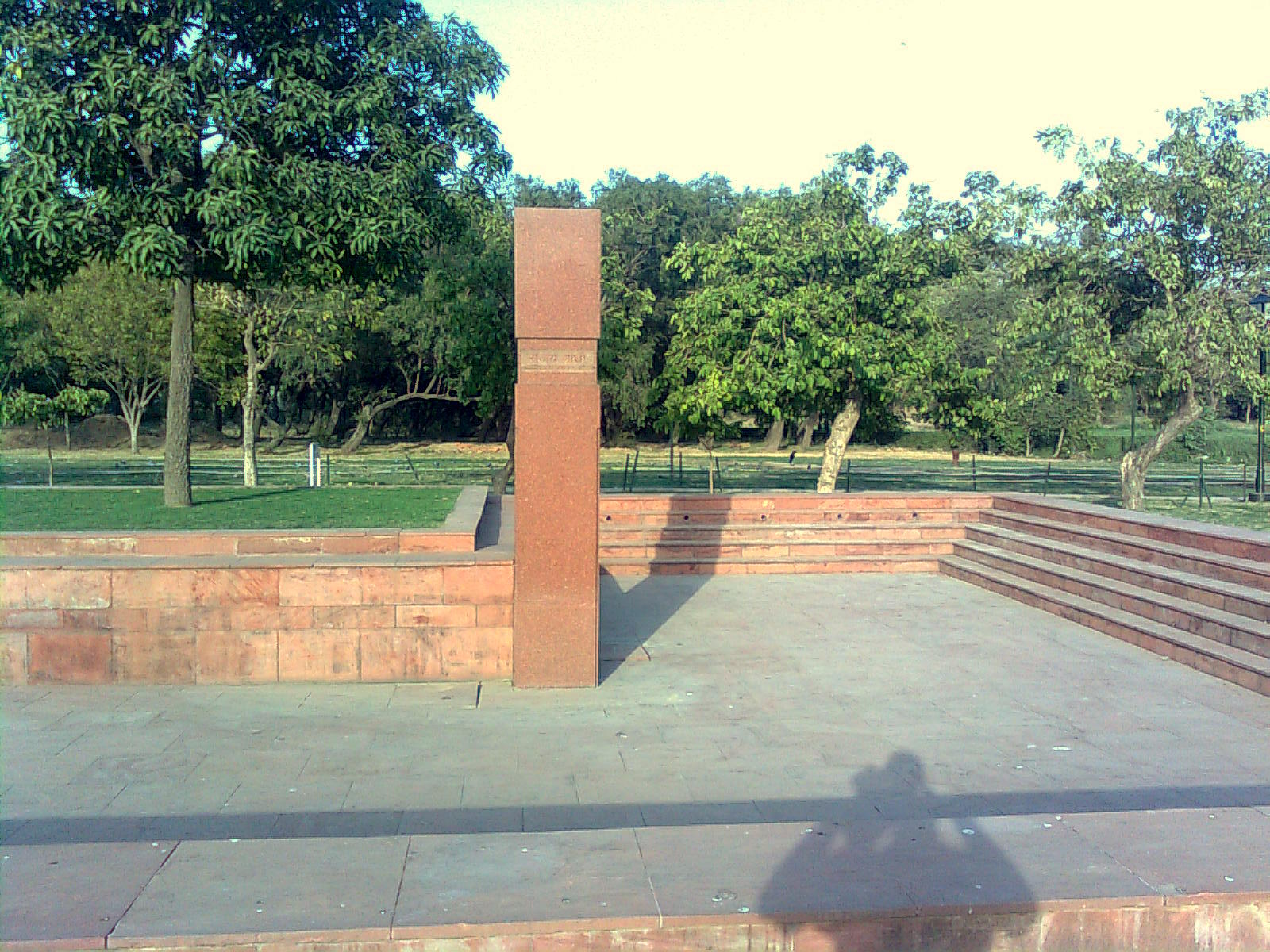 Memorial of Sanjay Gnadhi near Raj Ghat in New Delhi.